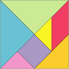 Diagram of a tangram